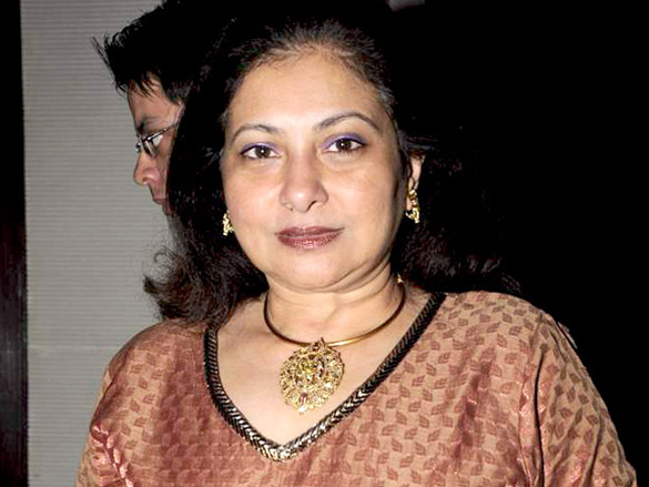 Smita jayekar